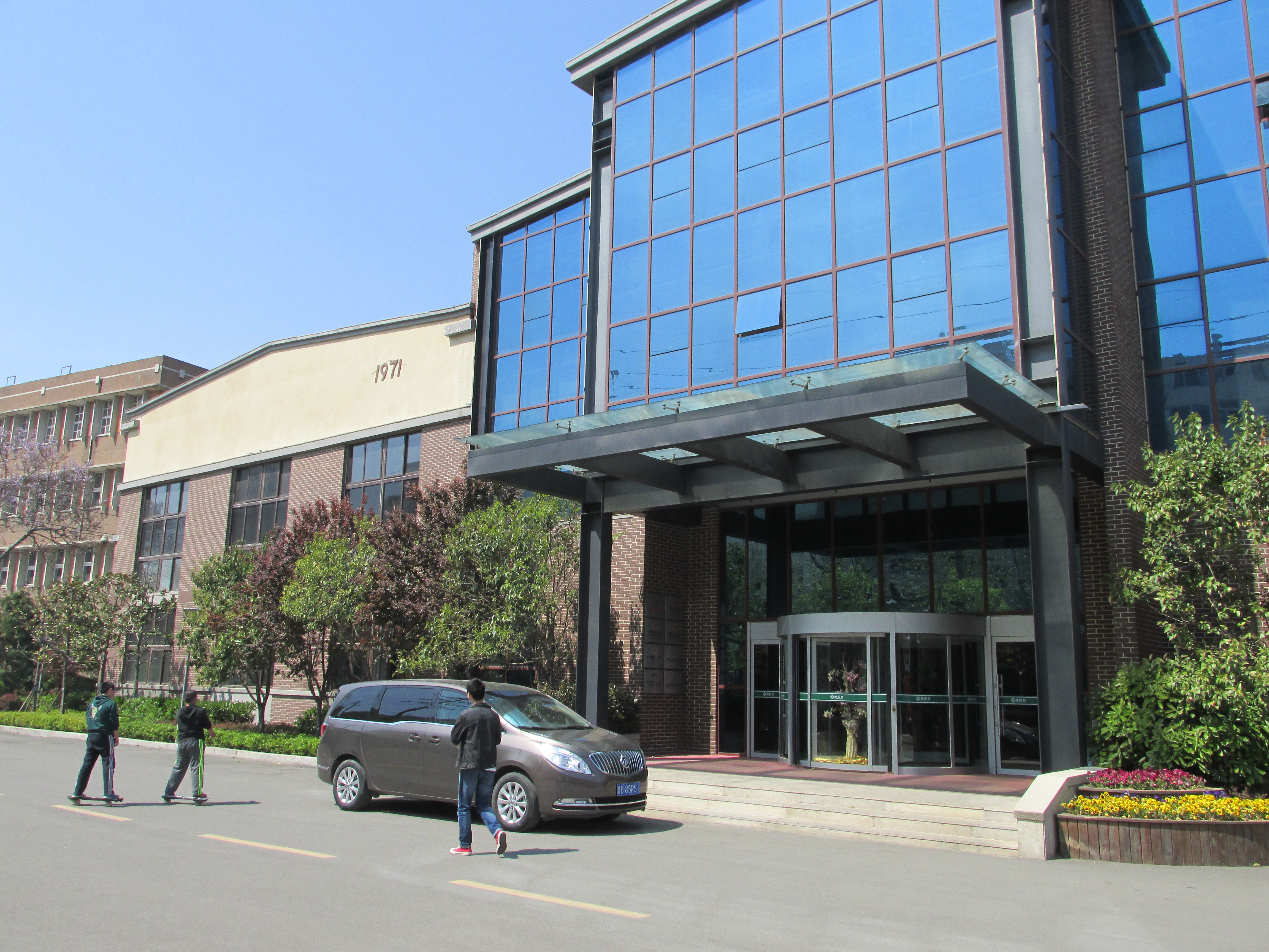 Headquarters of Rubber Valley Company, Qingdao University of Science and Technology, Qingdao, China